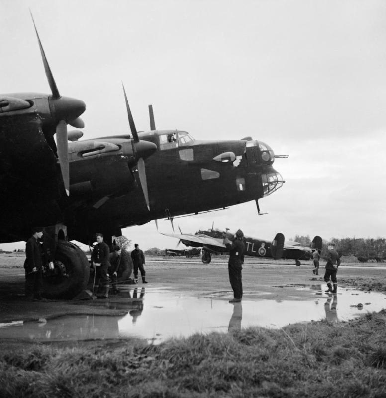 A Handley Page Halifax B Mark II Series I of No. 35 Squadron RAF, being prepared for an engine start in a dispersal, while another aircraft taxies past, at RAF Linton-on-Ouse, Yorkshire.